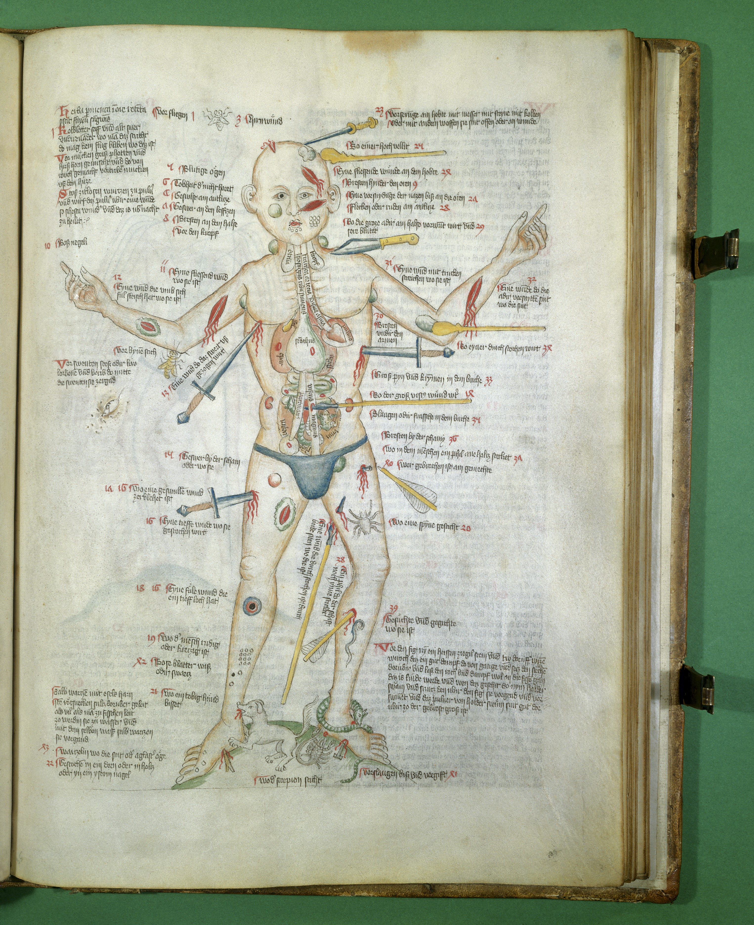 Wound-man with injuries, legend in German. Archives & Manuscripts Keywords: Medieval; Middle Ages